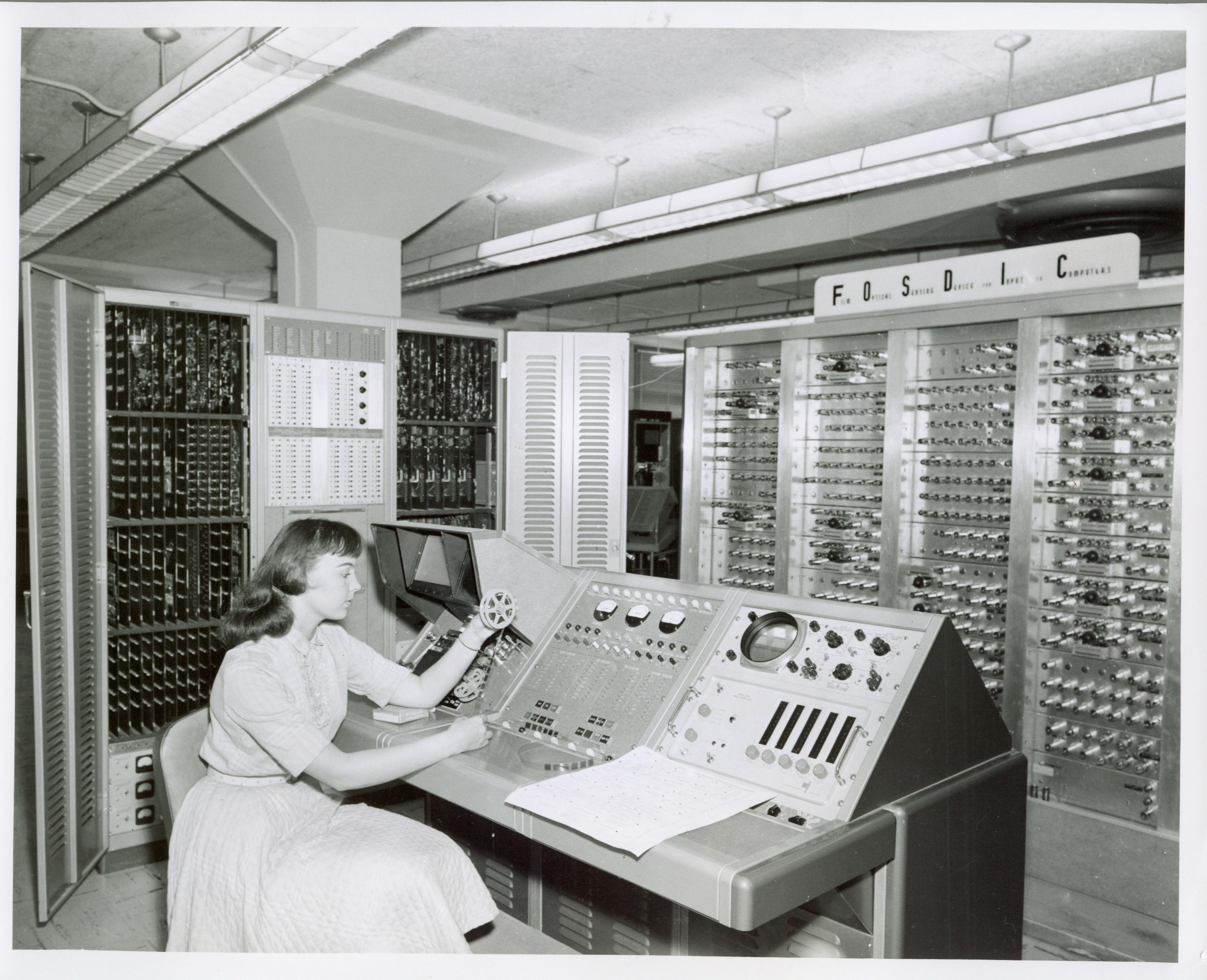 Between 1960 and 1990, FOSDIC (Film Optical Sensing Device for Input to Computers) allowed census data to be transferred from paper questionnaire to microfilm for rapid processing by the Census Bureau’s computers. A woman operator inspects one of the film reels.